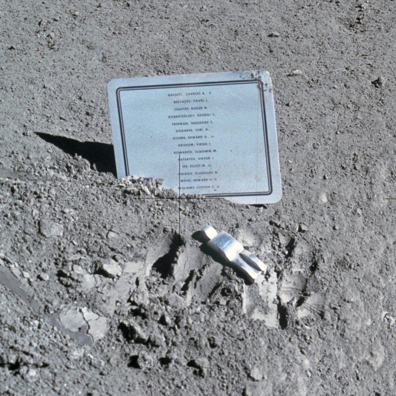 View of Commemorative plaque left on moon at Hadley-Apennine landing site. A close-up view of a commemorative plaque left on the Moon at the Hadley-Apennine landing site in memory of 14 NASA astronauts and USSR cosmonauts, now deceased. Their names are inscribed in alphabetical order on the plaque. The plaque was stuck in the lunar soil by Astronauts David R. Scott and James B. Irwin during their Apollo 15 lunar surface extravehicular activity. The tiny, man-like object represents the figure of a fallen astronaut/cosmonaut.